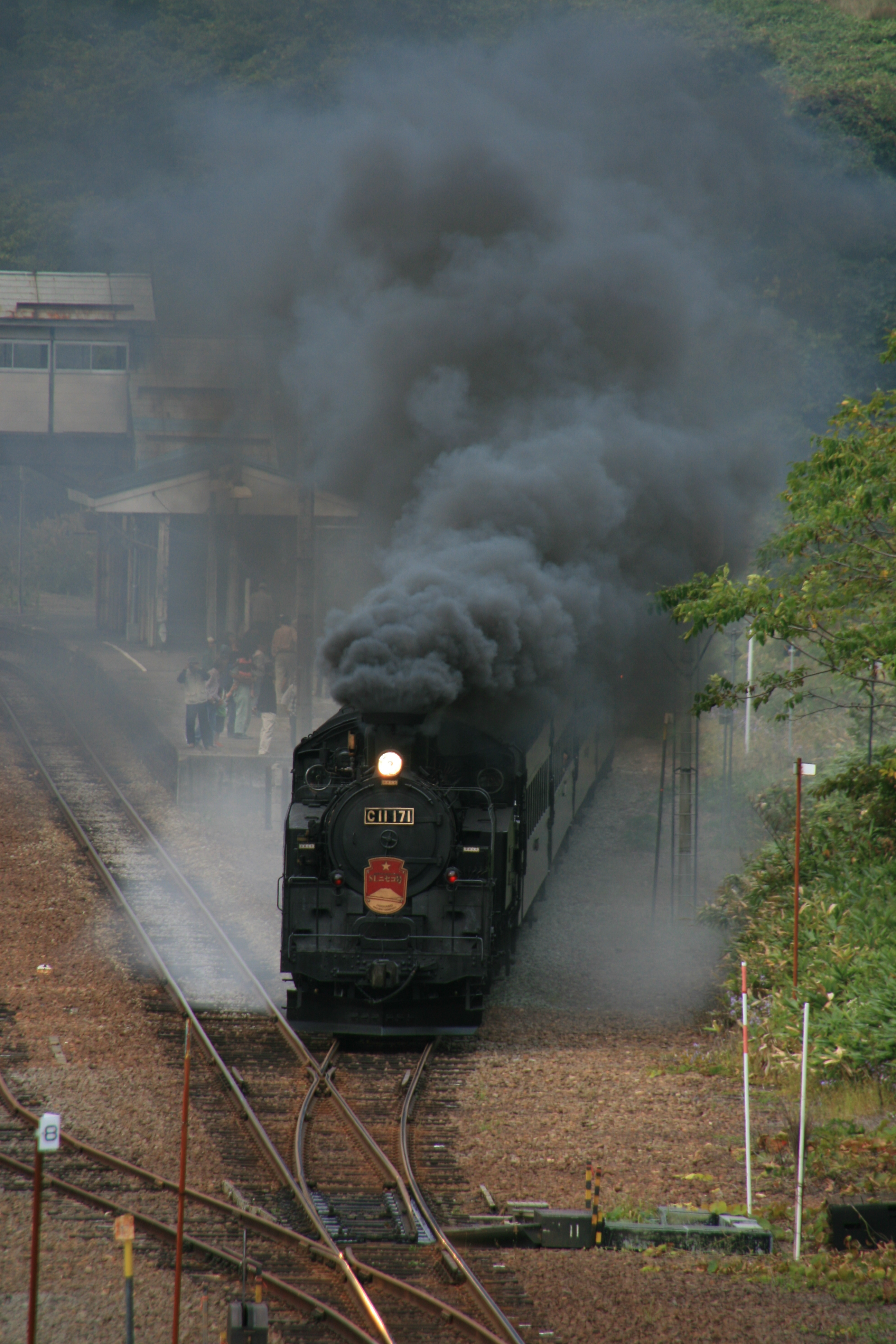 SL Niseko Steam Train at Kozawa Station in Kyōwa, Hokkaidō, Japan.